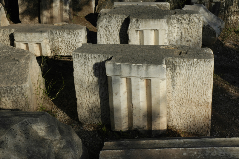 Triglyph blocks with slots for the insertion of metopes in the Marmaria at Delphi.J. Matthew Harrington, personal digital image dosiero:Metopo 2.jpg